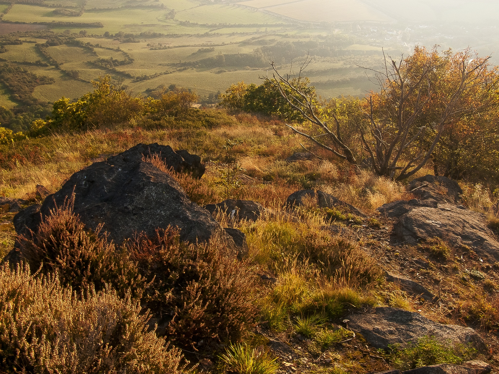 Vegetation on the phonolite mountain Bořeň.